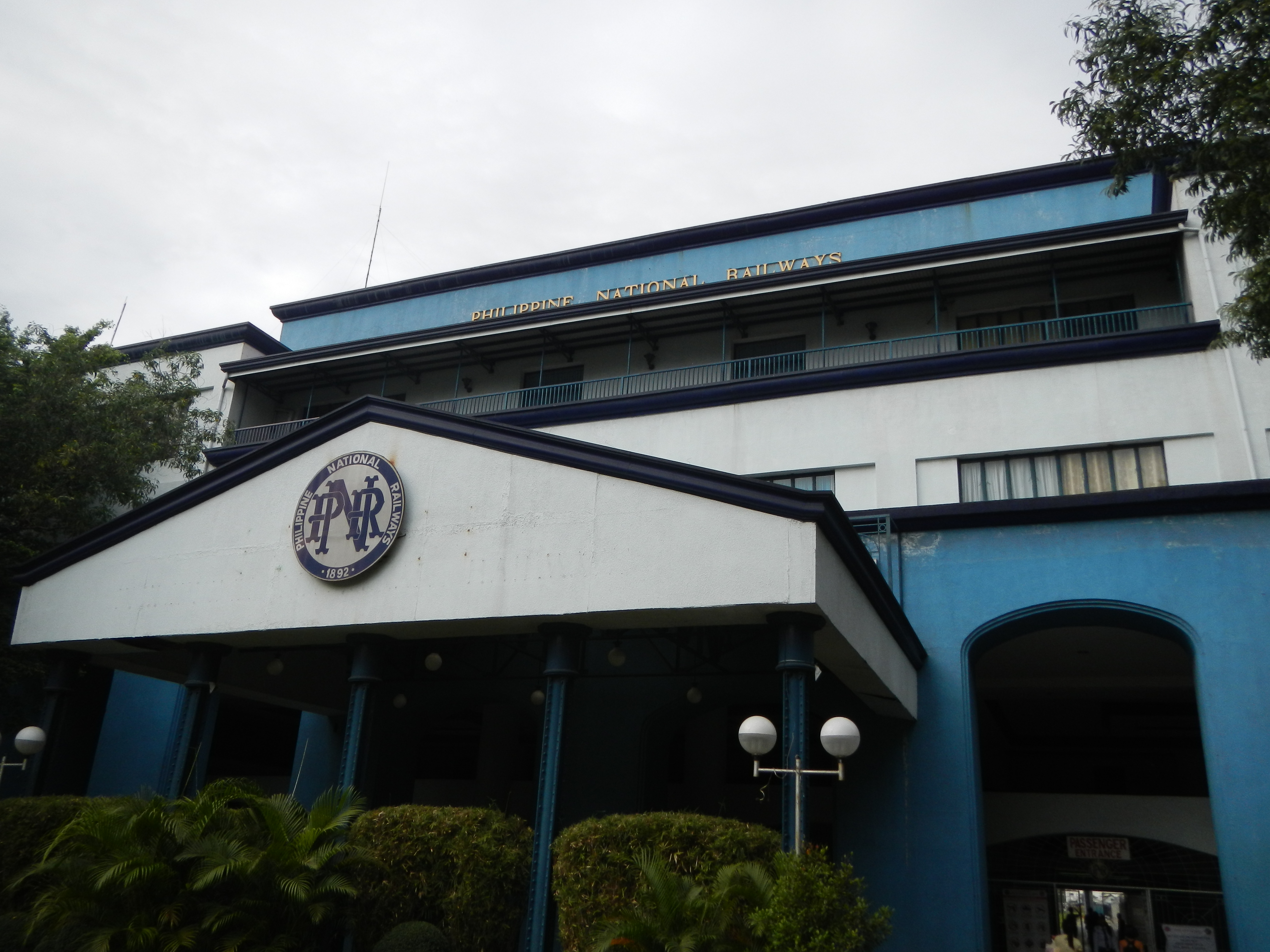 Upload Wizard photos of - a) Tutuban Centermall II, List of shopping malls in Metro Manila [1] b) Tutuban railway station[2] PNR Executive Building on Mayhaligue Street, Tondo, Manila[3], which today serves as the PNR's Tutuban station Philippine National Railways[4] and its Chapel.